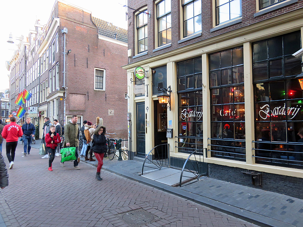 Zeedijk in Amsterdam where it crosses Oudezijds Kolk, with at the right gay bar De Barderij and gay bar Queen's Head where the rainbow flags are.